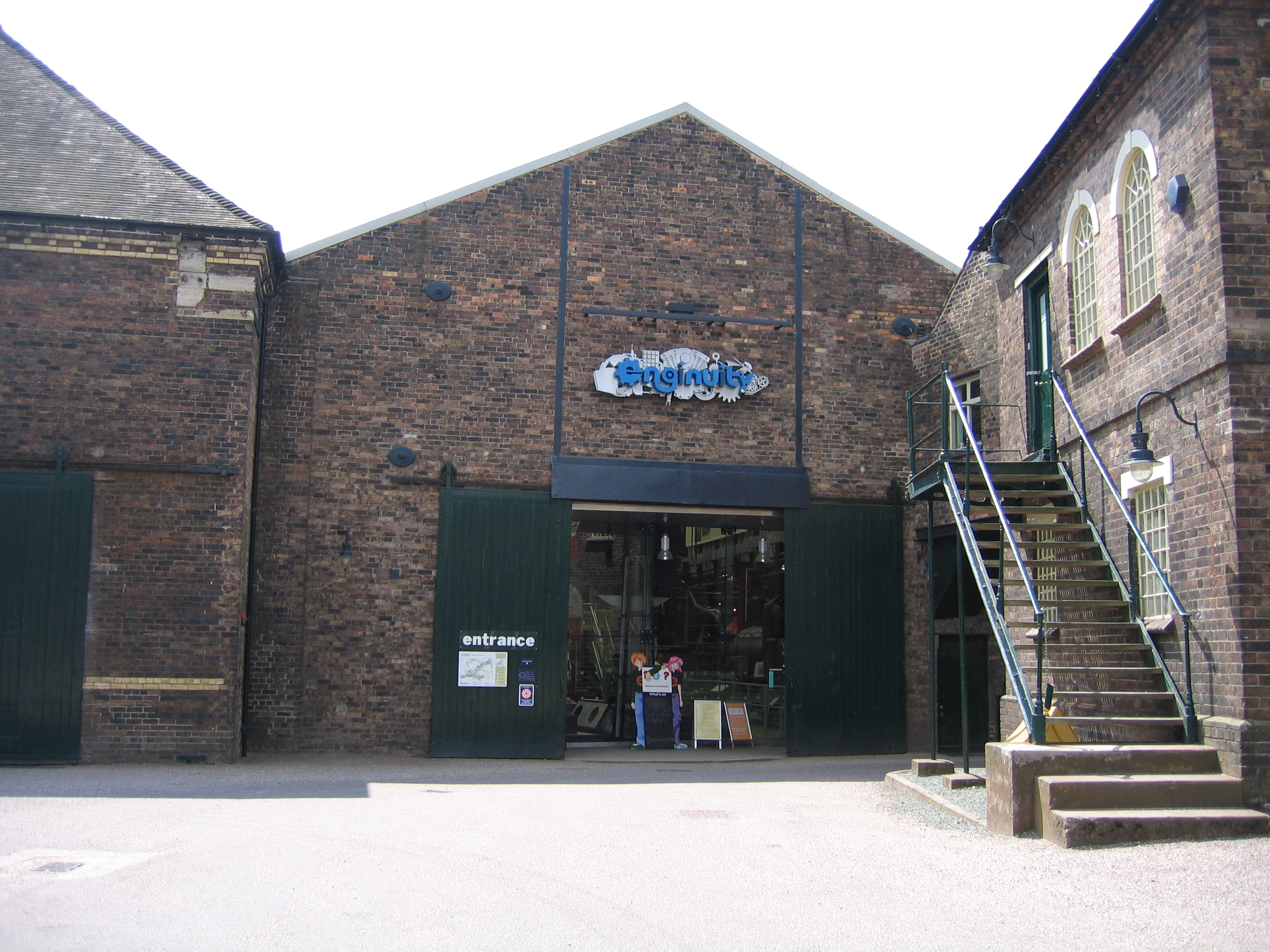 The entrance to Enginuity Museum This image was taken by myself in June 2006. It shows the entrance to Enginuity Museum, one of the 10 Ironbridge Gorge Museums. Information about the museum can be found on the Ironbridge Gorge Museums website